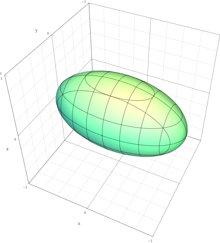 An ellipsoid. Made with Mathematica.